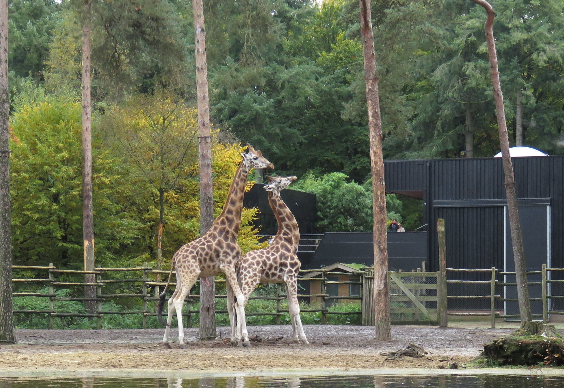 Giraffes (Giraffa camelopardalis) in the zoo in Amersfoort (NL)